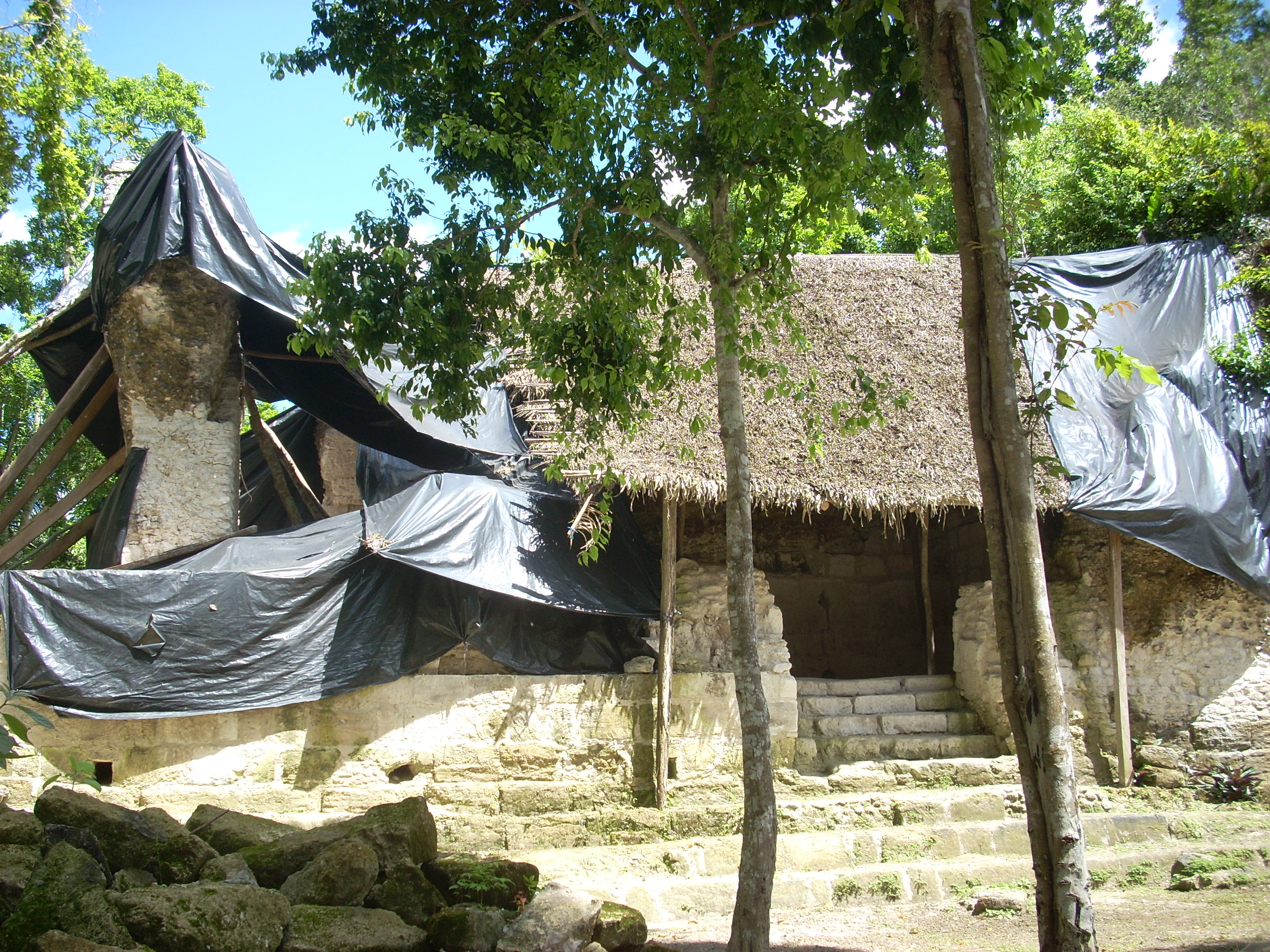 East range of the Maya acropolis at La Blanca, Peten, Guatemala.